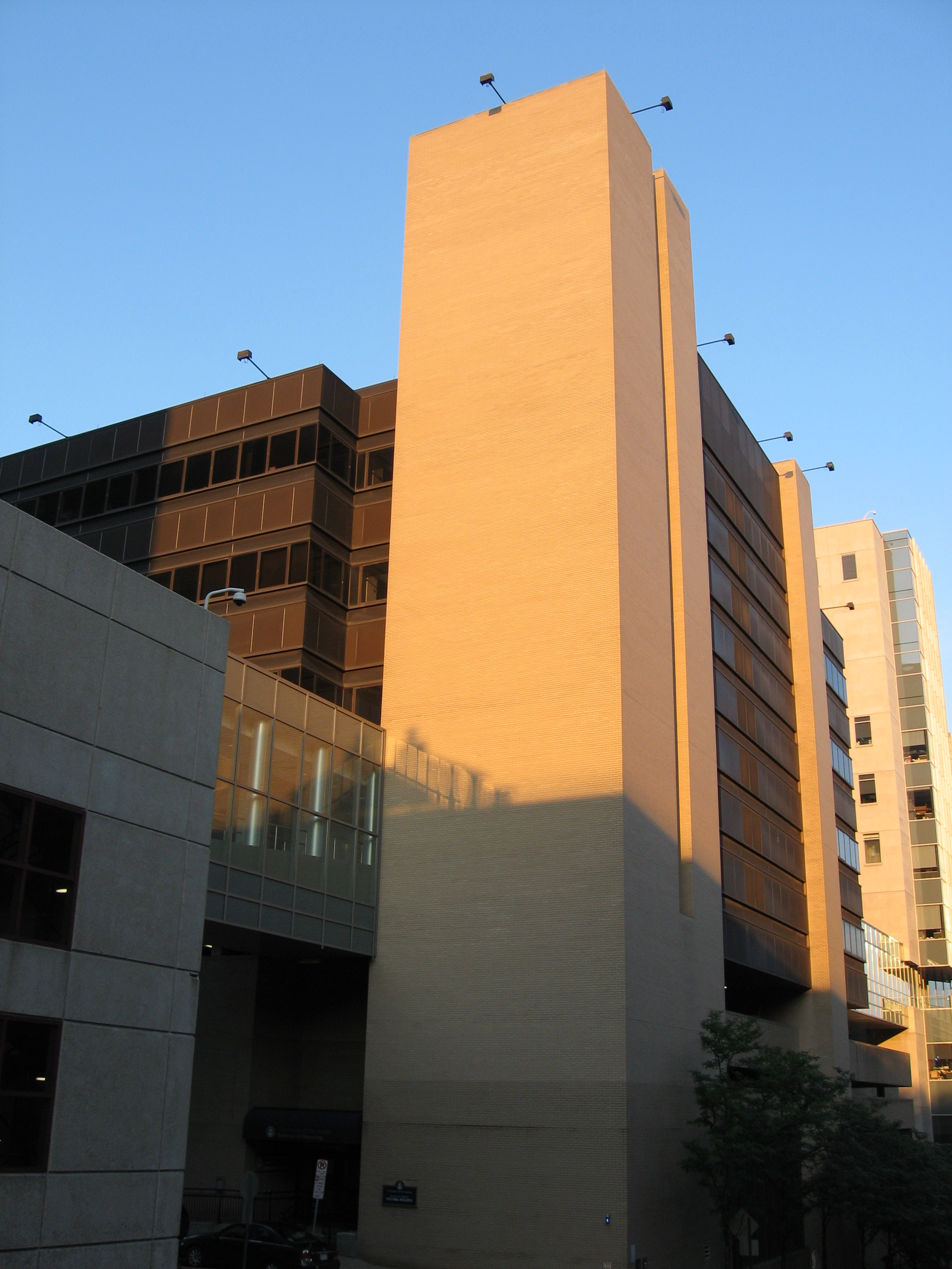 Victoria Building at University of Pittsburgh. Home of the University of Pittsburgh School of Nursing 40°26′28″N 79°57′38.6″W / 40.44111°N 79.960722°W